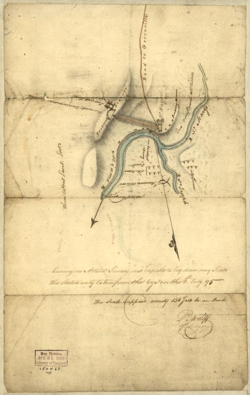 Map of Fort Wayne, circa 1795. From the Library of Congress.